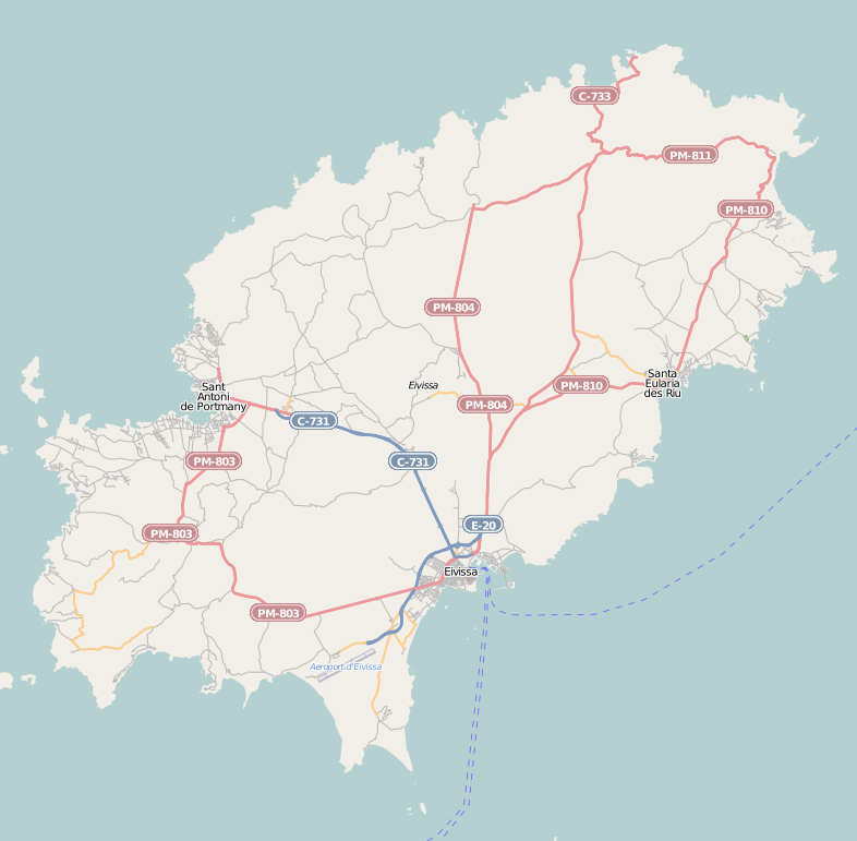 Map of Ibiza Geographic limits of the map: N: 39.136° S: 38.804° W: 1.197° E: 1.632°